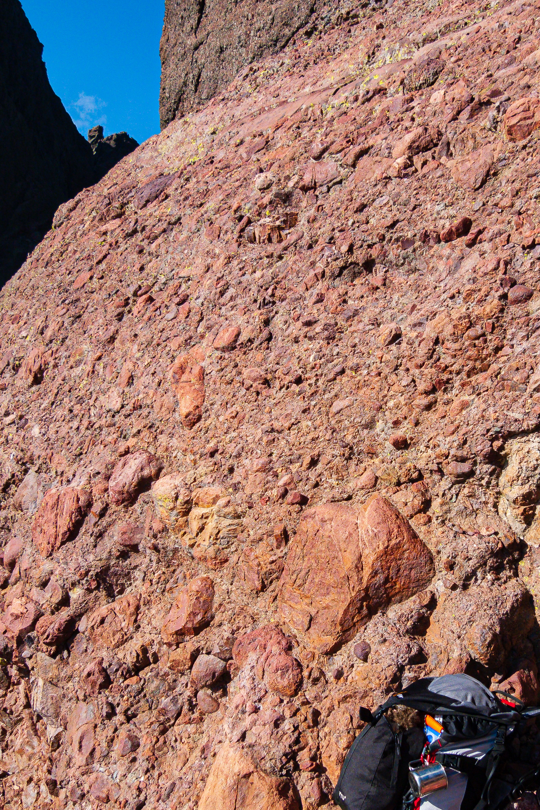 Poorly-sorted, polymictic Permian conglomerates and beds of arkosic sandstones (upper third of the picture) in the Paglia Orba range, Corsica (France). Looking NNW from the SSW slope of Paglia Orba mountain.